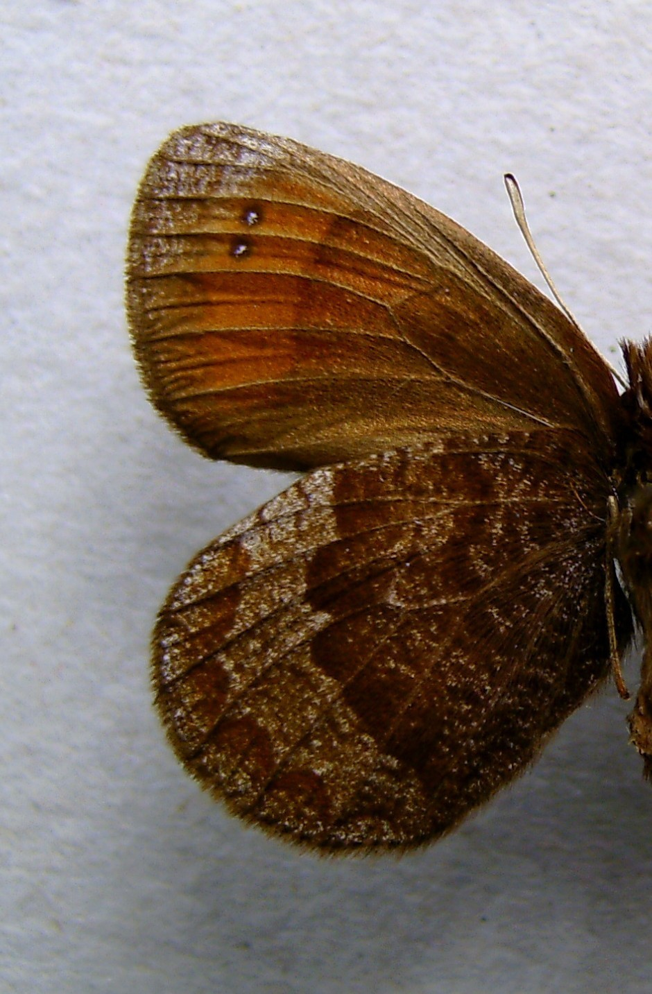 Erebia stirius